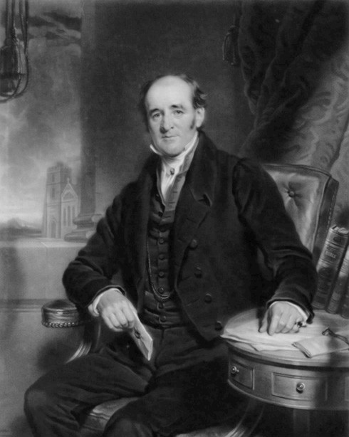 Image of William Bruce Knight from 1834 taken from the book Historical & pictorial glimpses of Llandaff Cathedral : the cathedral of S.S. Peter, Paul, Dubritius, Teleiau and Oudoceus